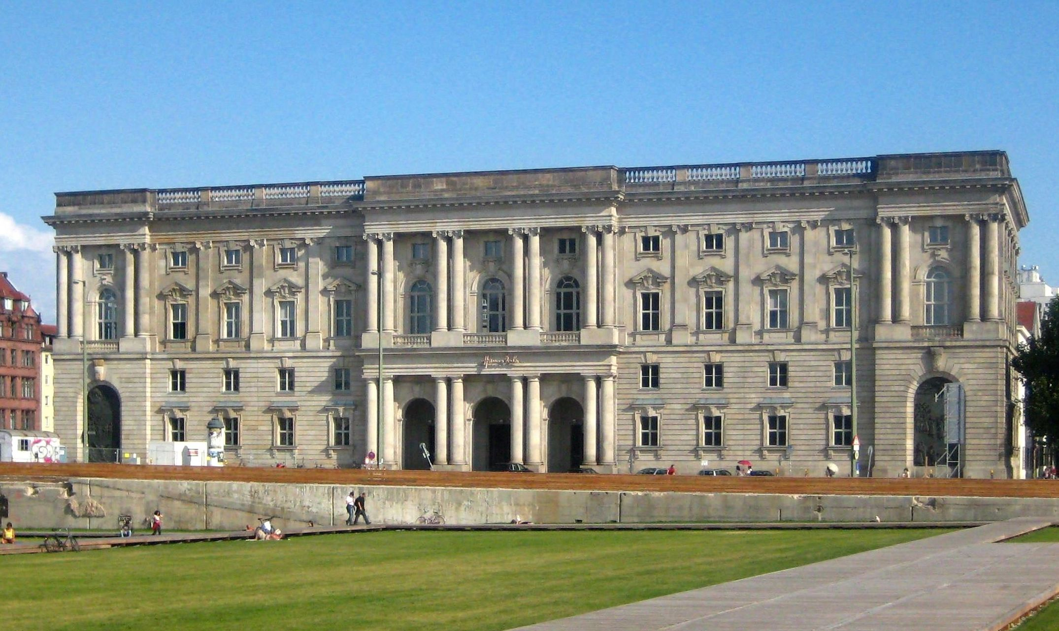 The front facade of the Neuer Marstall (New Royal Stables) in Berlin-Mitte. It was built 1896-1901 by Royal Architect Ernst von Ihne in the Neo-barock style as substitue for the Royal Stables Unter den Linden, which were demolished to make room for what is now House 1 of the Staatsbibliothek zu Berlin (Berlin State Library). The former horse stables of Neuer Marstall were turned into book stacks in 1921 and the building was forthwith used by the Berlin City Library. Damaged in WWII, the building was reconstructed 1950-1954 and 1961-1965 without most of the original ornaments by sculptor Otto Lessing. It is still partly used by the Berlin City Library and also houses the "Hochschule für Musik 'Hanns Eisler'" ("University for Music 'Hanns Eisler'"). The building has been designated as a historic landmark.